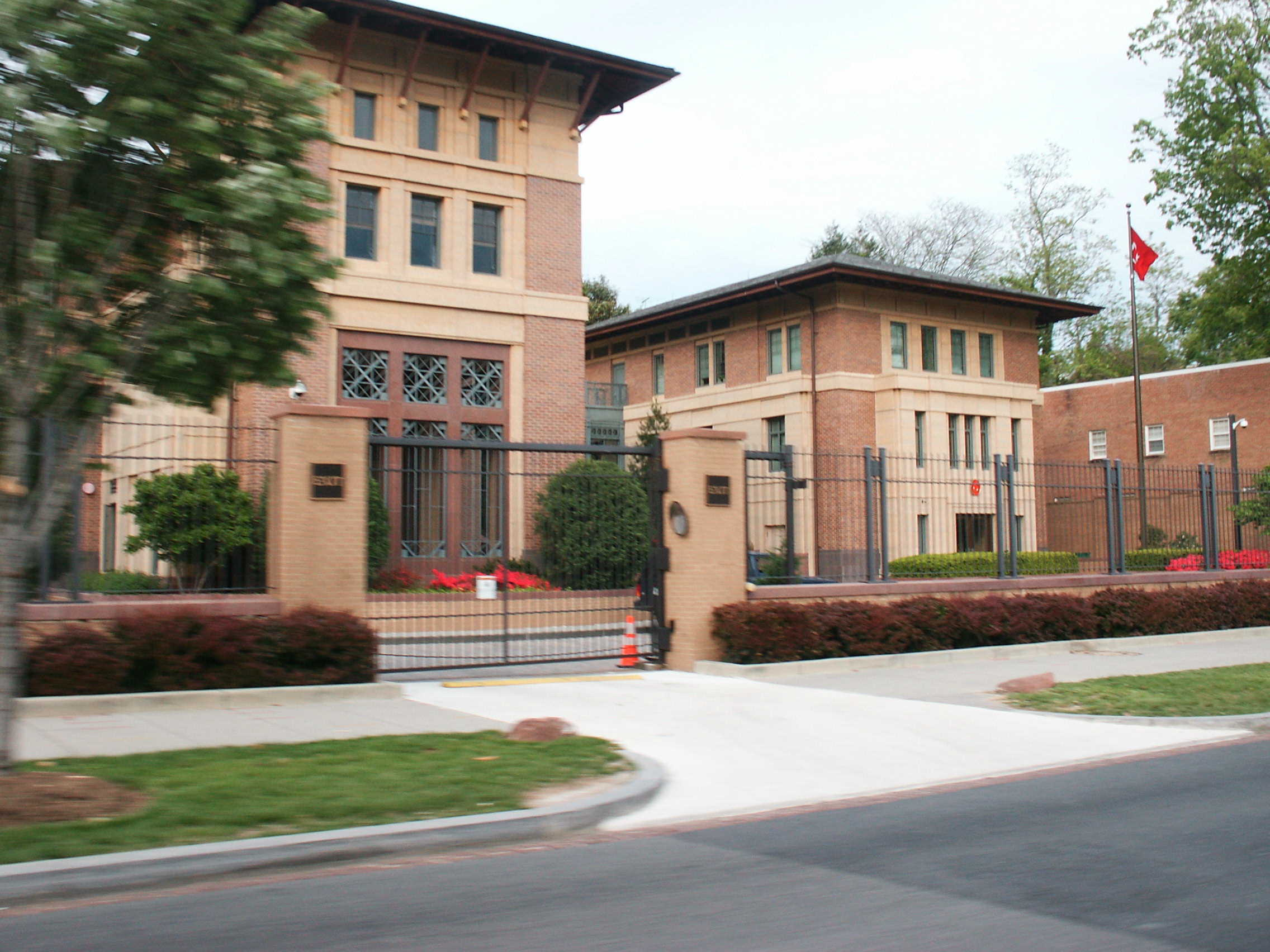 The Embassy of Turkey located at 2525 Massachusetts Avenue, NW in the Sheridan-Kalorama neighborhood of Washington, D.C. The building which housed the embassy from 1932–1999 now serves as the Turkish ambassador's residence. The Embassy of Turkey's 2009 property value is $36,887,090. Photo taken during the Washington, D.C. Wikipedia Meetup, pursuant toward a request for pictures of embassies in Washington.